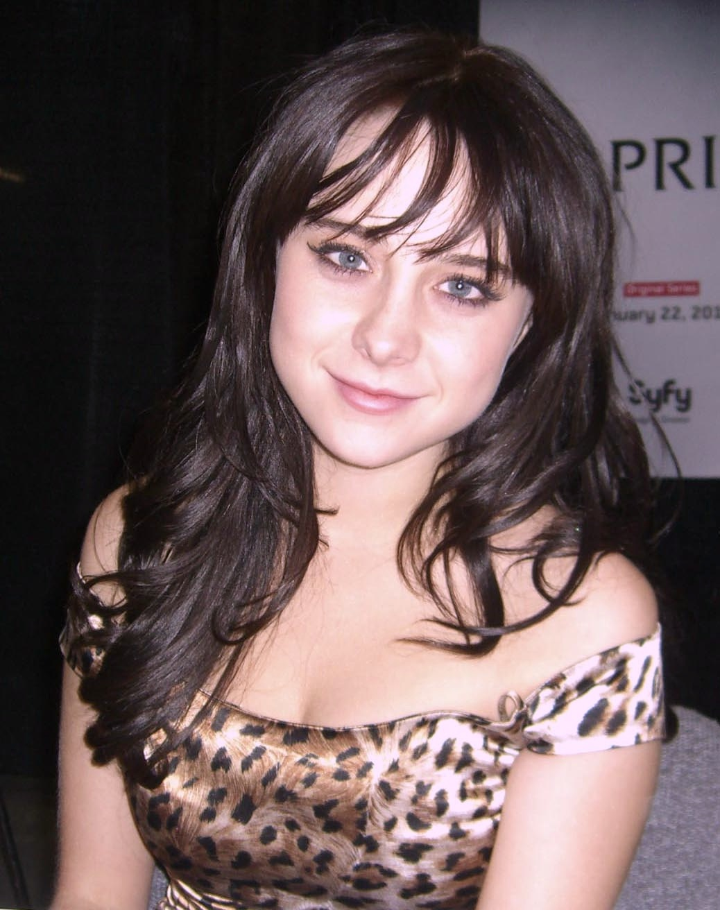 Actor Alessandra Torresani at the Big Apple Convention in Manhattan. Photo by Luigi Novi. This photo may be used, modified and published for any purpose, only if an easily visible credit to the photographer is placed near the photo in each instance in which it is used. (See licensing information below.) Publication of this photo without this proper attribution constitutes copyright infringement. For more information on my photos, you can contact me here.